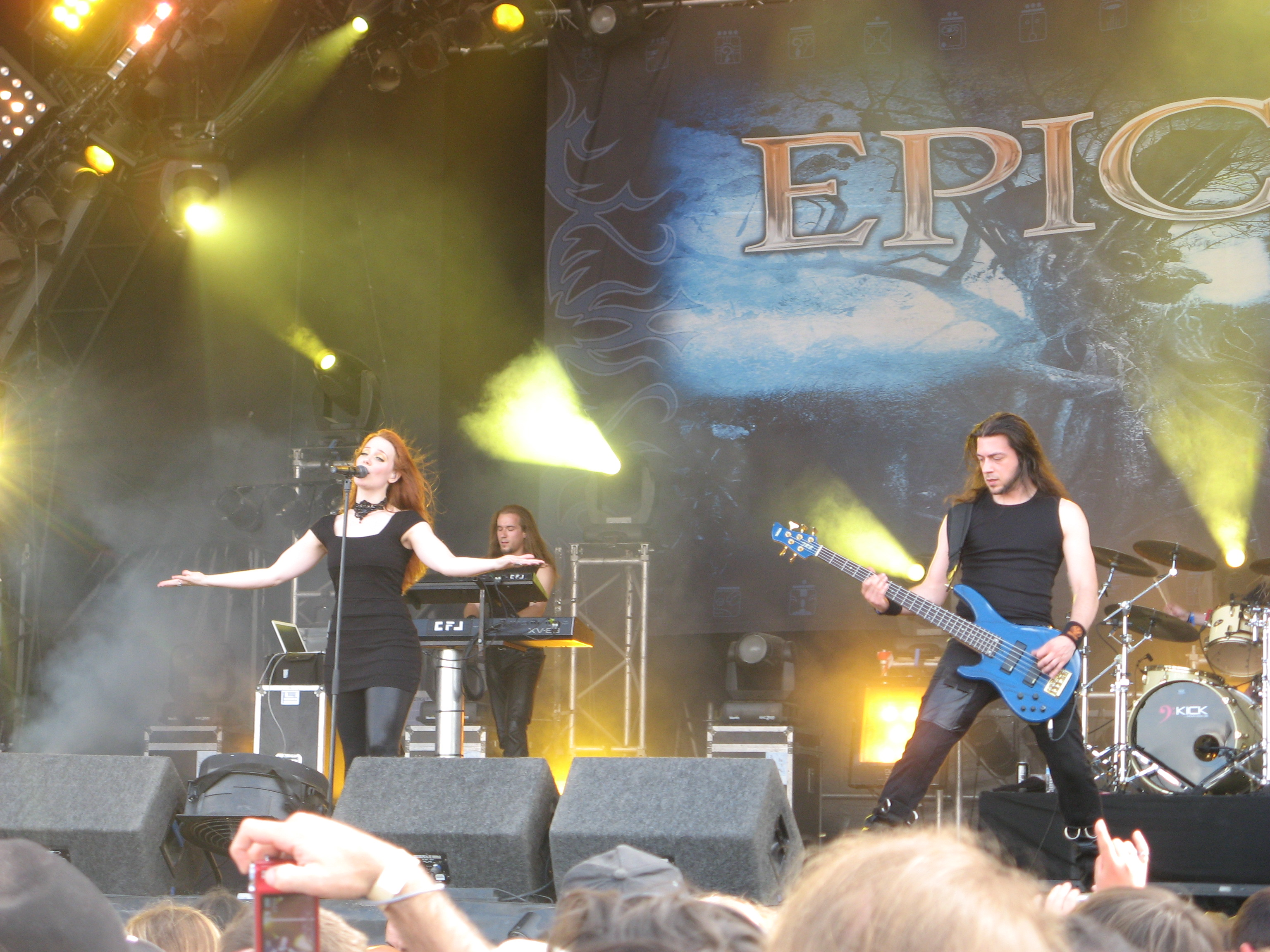 Simone Simons, Epica, Hellfest 2009